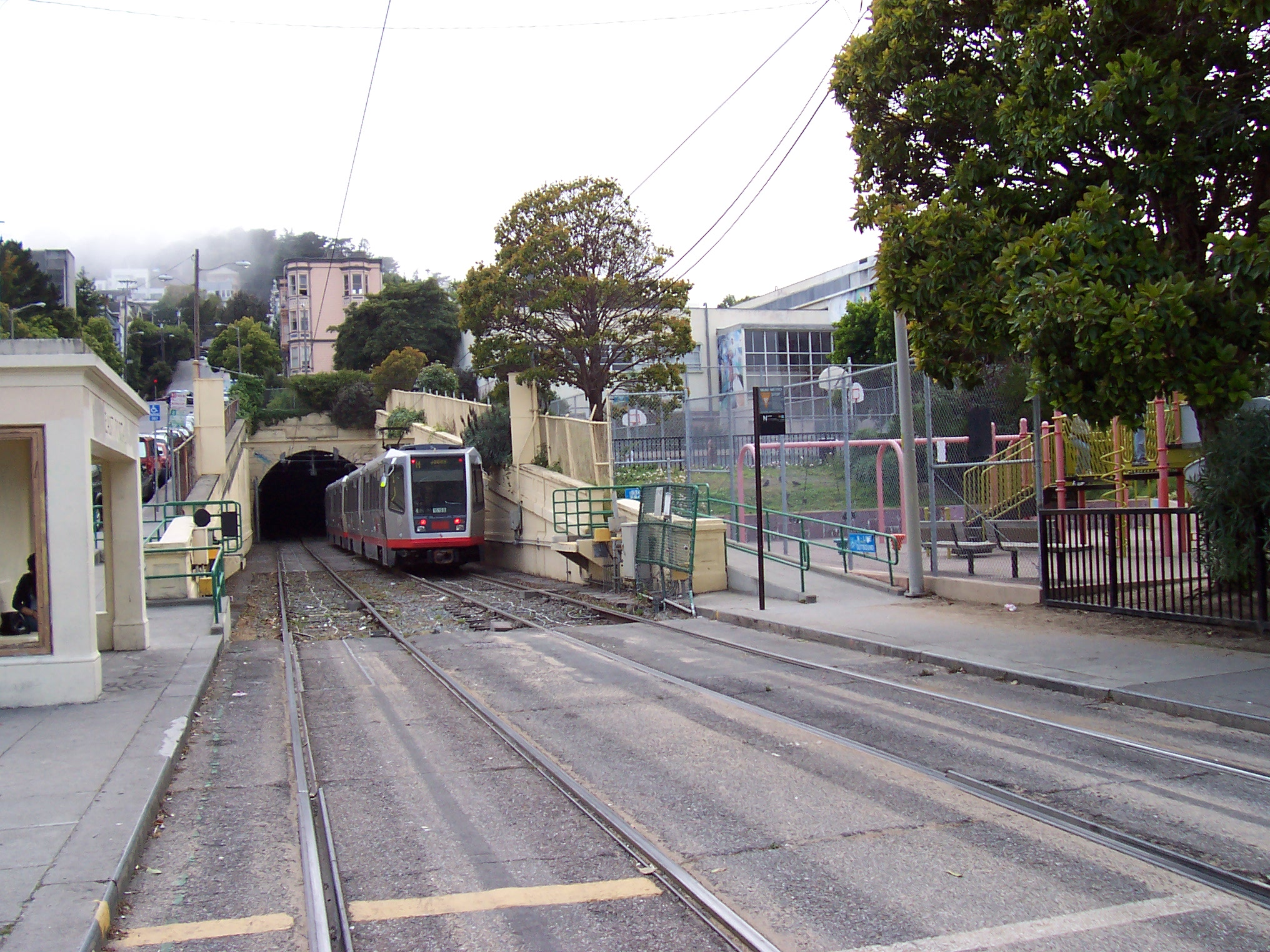 The eastern portal of the Sunset Tunnel in San Francisco, California. A MUNI N-Judah train is entering the tunnel. To the right is the children's play area in Duboce Park. "EAST PORTAL" is engraved above the entrance to the sheltered waiting area on the left. Credits Photographer: Christopher Beland Date: 10 July 2005